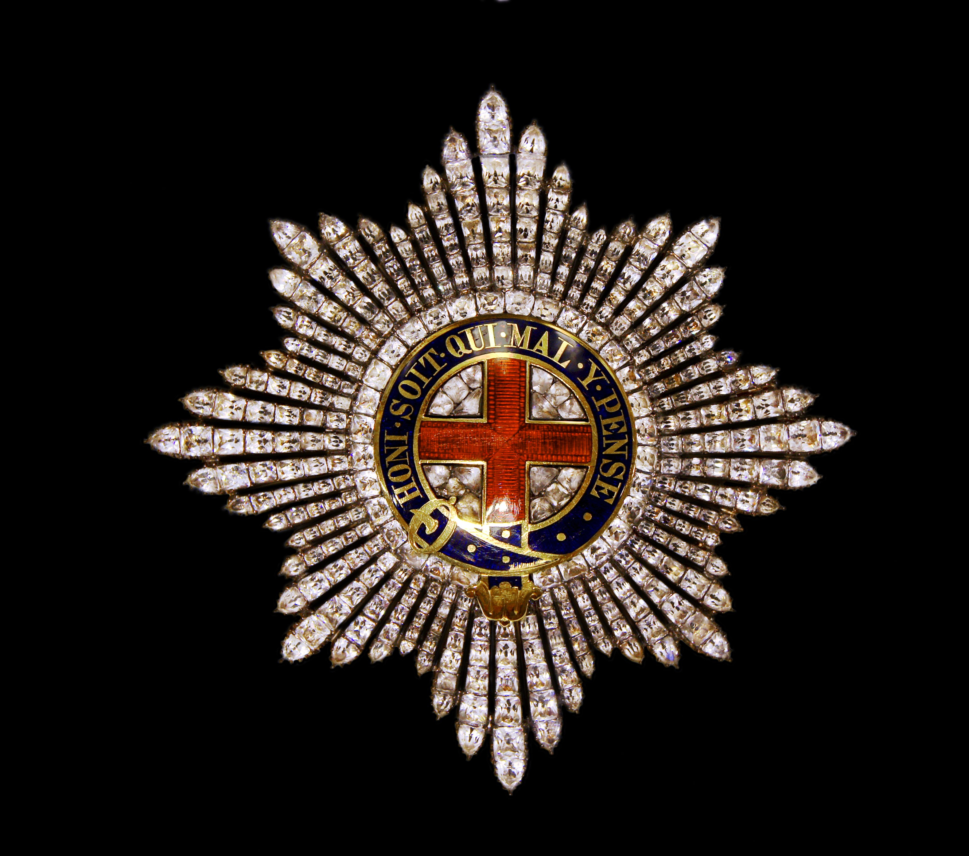 a breast plaque of the british Order of the Garter, with diamonds. Musée national de la Légion d'Honneur et des Ordres de Chevalerie, Paris.